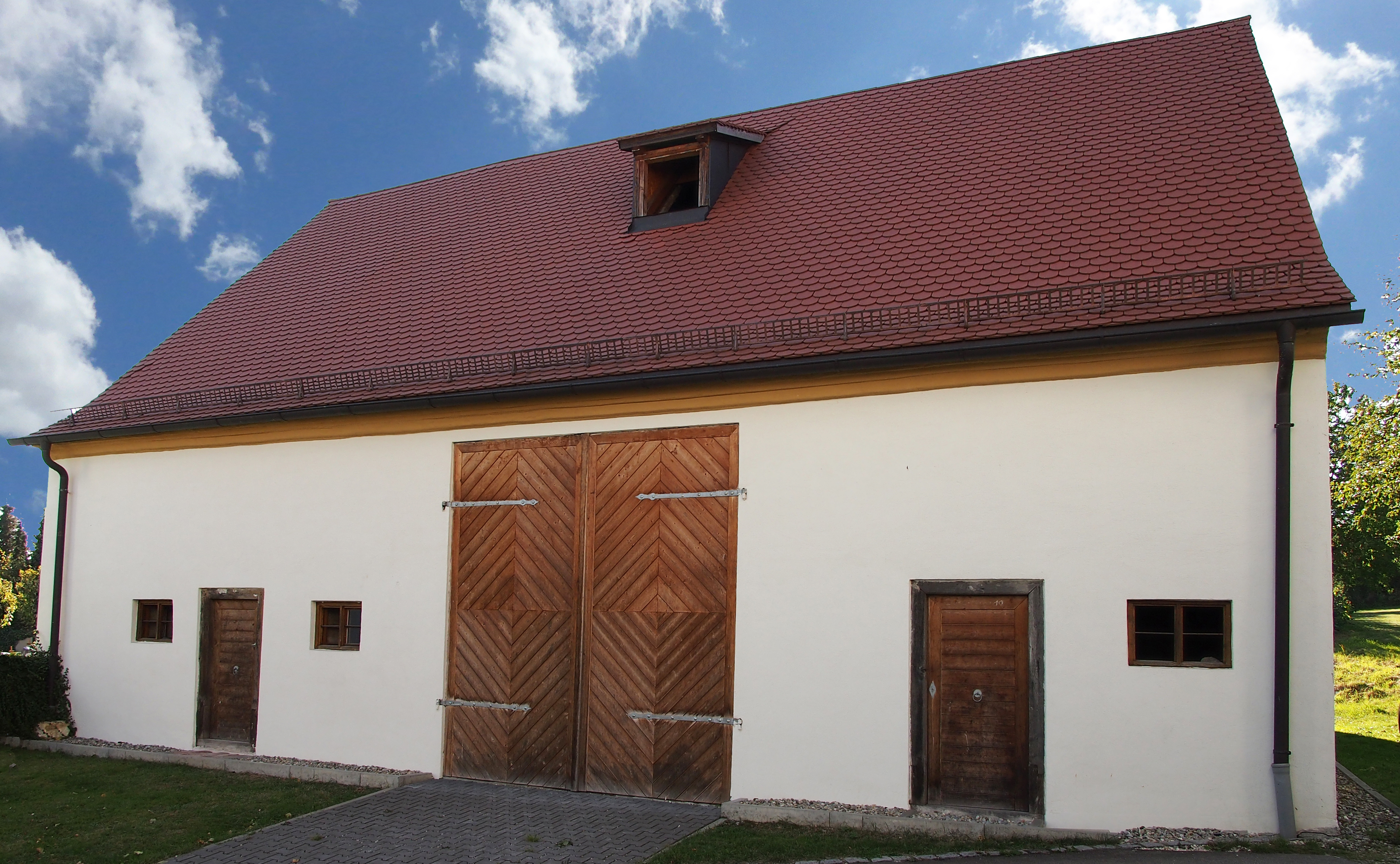 This is a photograph of an architectural monument. zugehörig